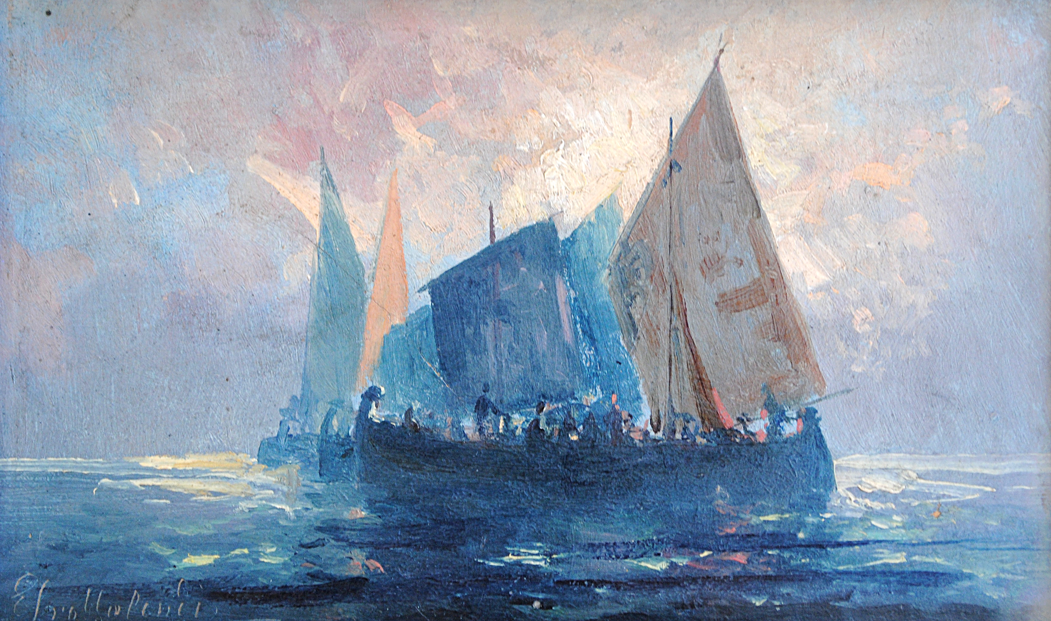 Θαλασσογραφία,Ελαιογραφία σε χαρτόνι, 10 x 17 εκ., Ιδιωτική Συλλογή